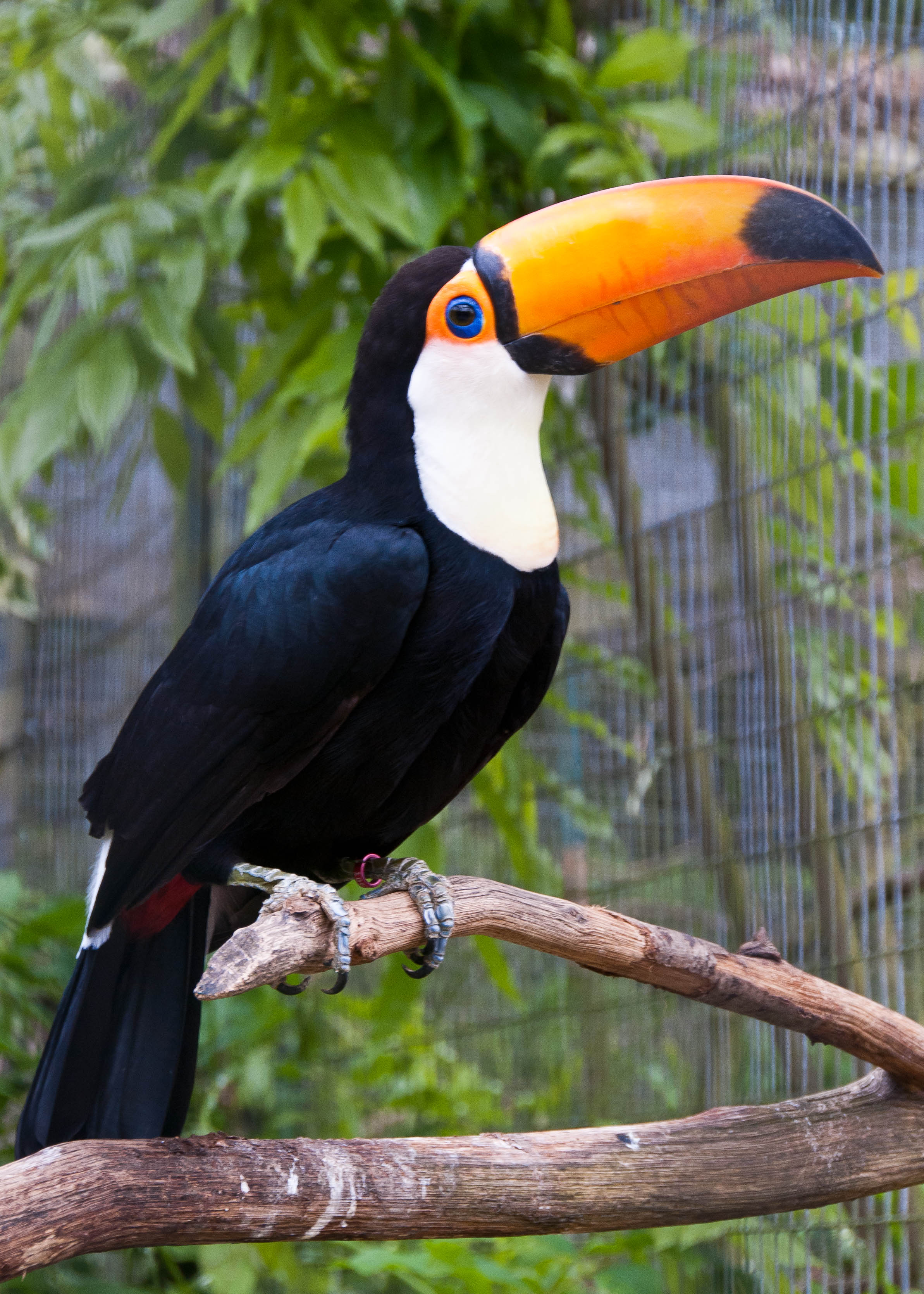 A Toco Toucan in Birdworld, Farnham, Surrey, England.